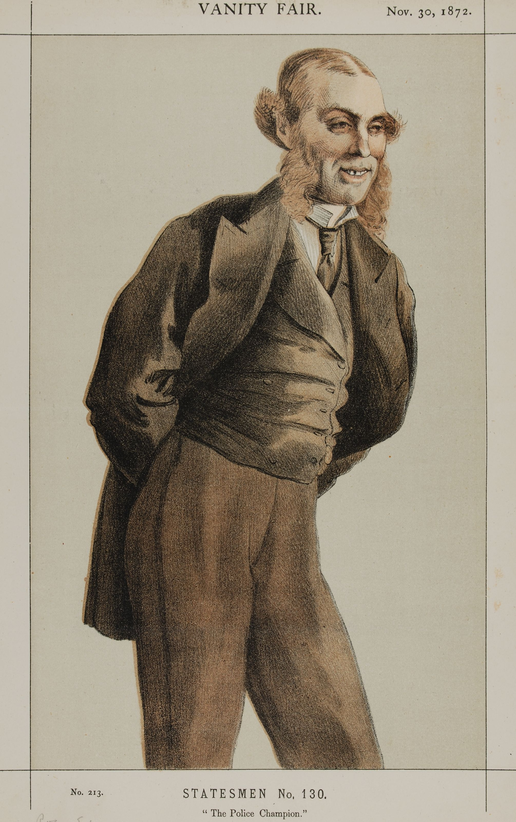 Statesmen No.130: Caricature of Mr Roger Eykyn, Liberal MP for Windsor.. Caption reads: "The Police Champion"